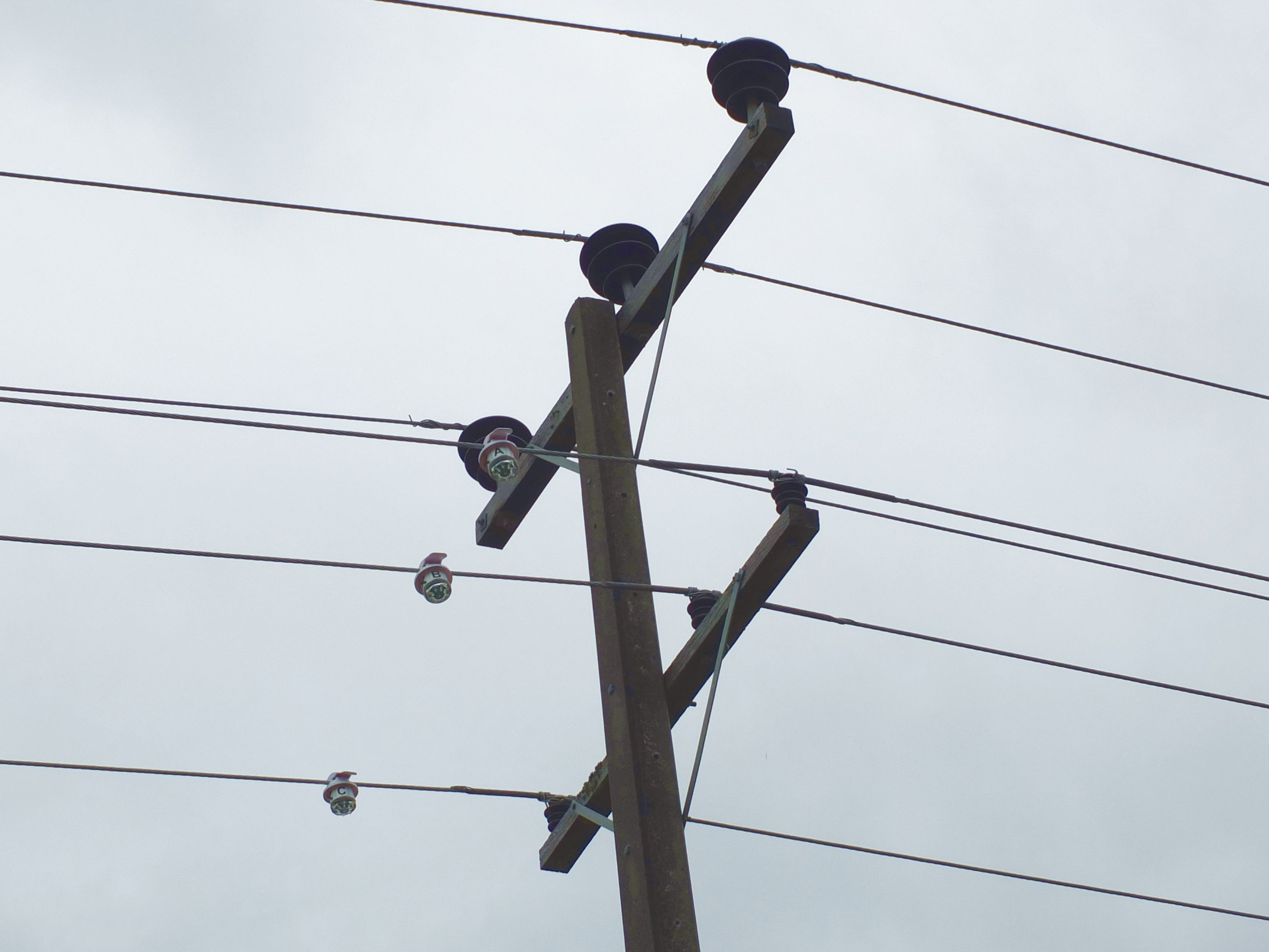 11 kV overhead line conductor-mounted fault indicator in GFN equipped system, Ataahua, New Zealand